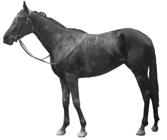 Rhodora, winner of the 1908 1,000 Guineas Stakes.